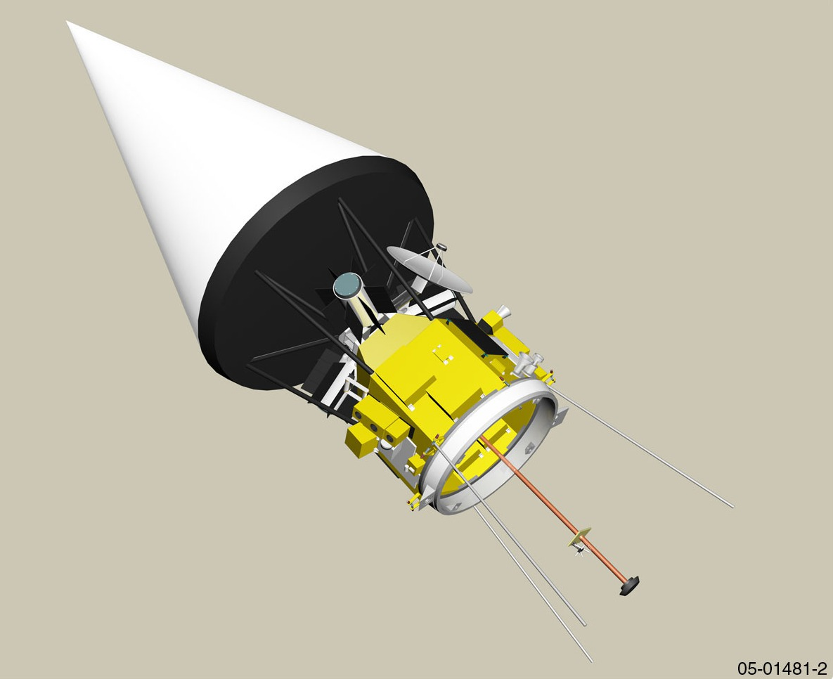 Early artist impression of Solar Probe with conical heatshield and RTGs